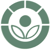 Radura Symbol. Converted from EPS to SVG for Wikipedia use by user CALTD. style tags: radura irradiate irradiation radurization radicidation radappertization